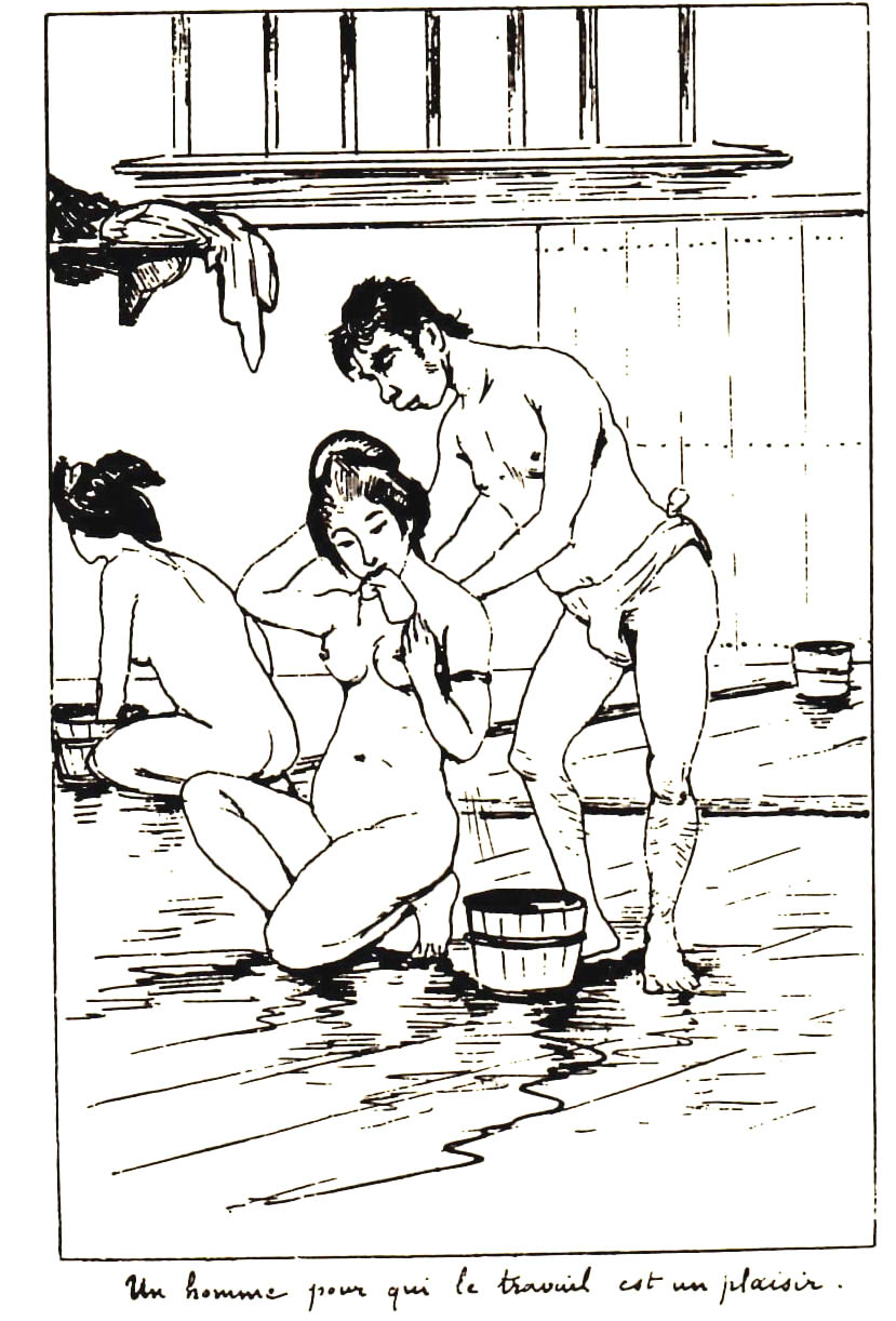 Sansuke, Old Japanese public bath worker